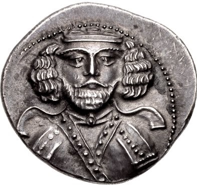 Coin of Phraates III, minted at Ray.